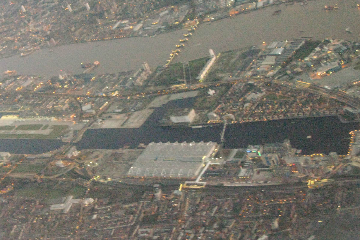 ExCeL and docks back in 2008 (There have been some significant changes and building works since then for the 2012 Olympics)